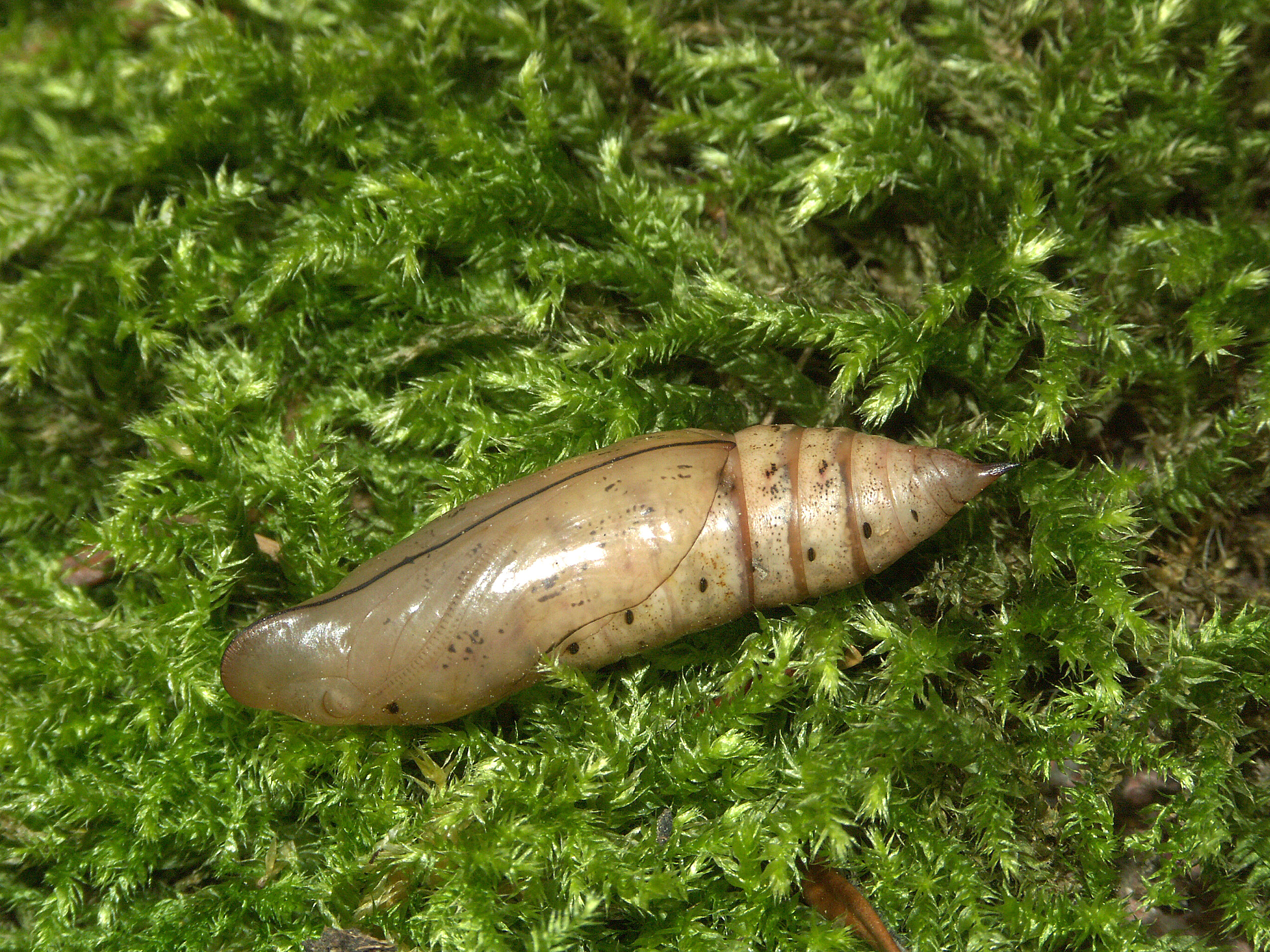 Hummingbird Hawk-moth